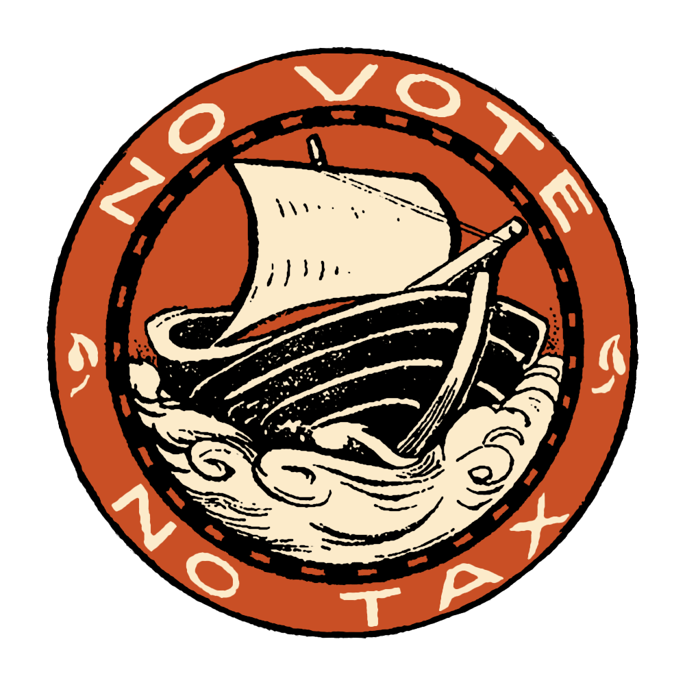 A badge of the Women’s Tax Resistance League, with the slogan “No vote, no tax”, as designed by its author Margaret Sargant Florence 1857-1954. Modern restored version.